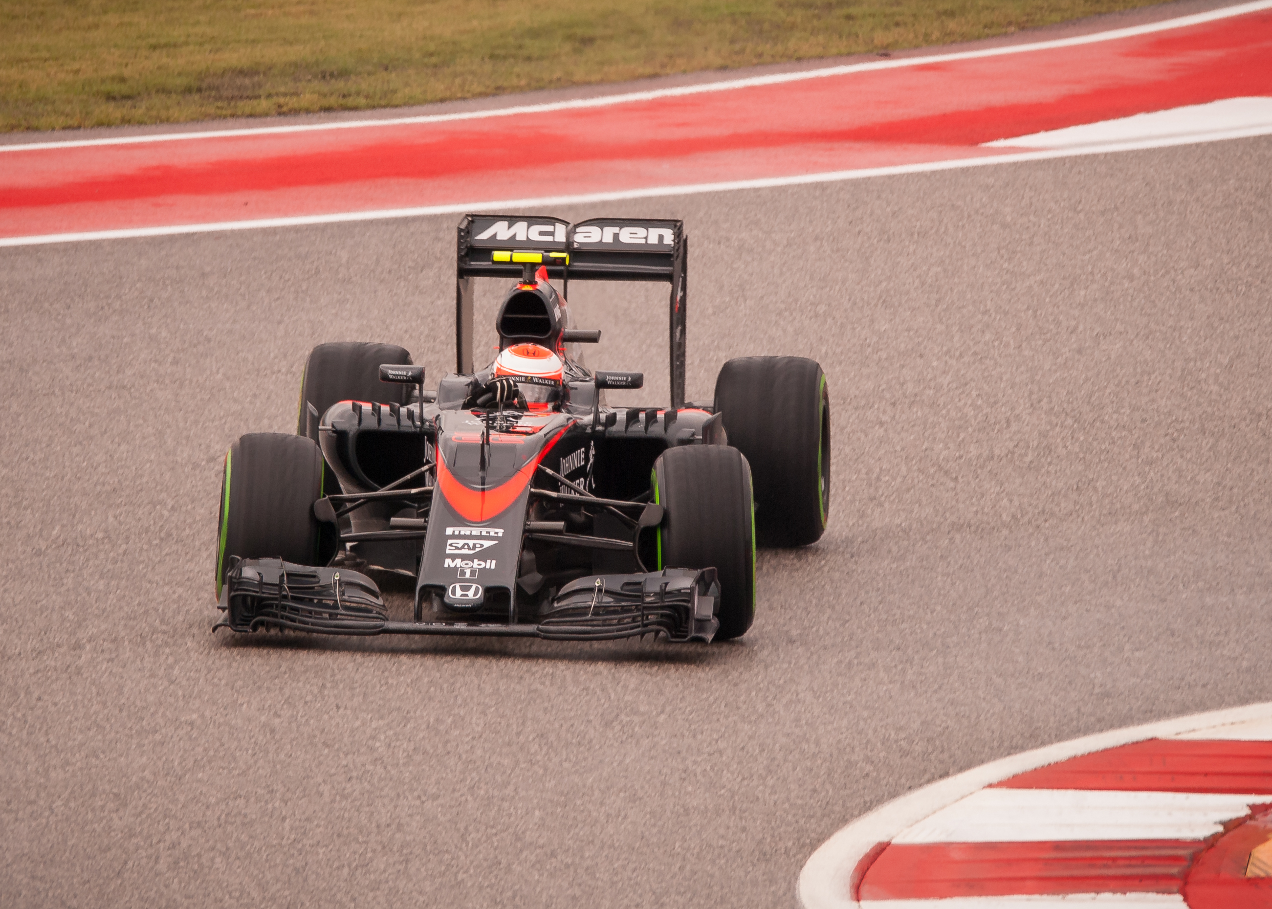 Jenson Button at the 2015 United States Grand Prix